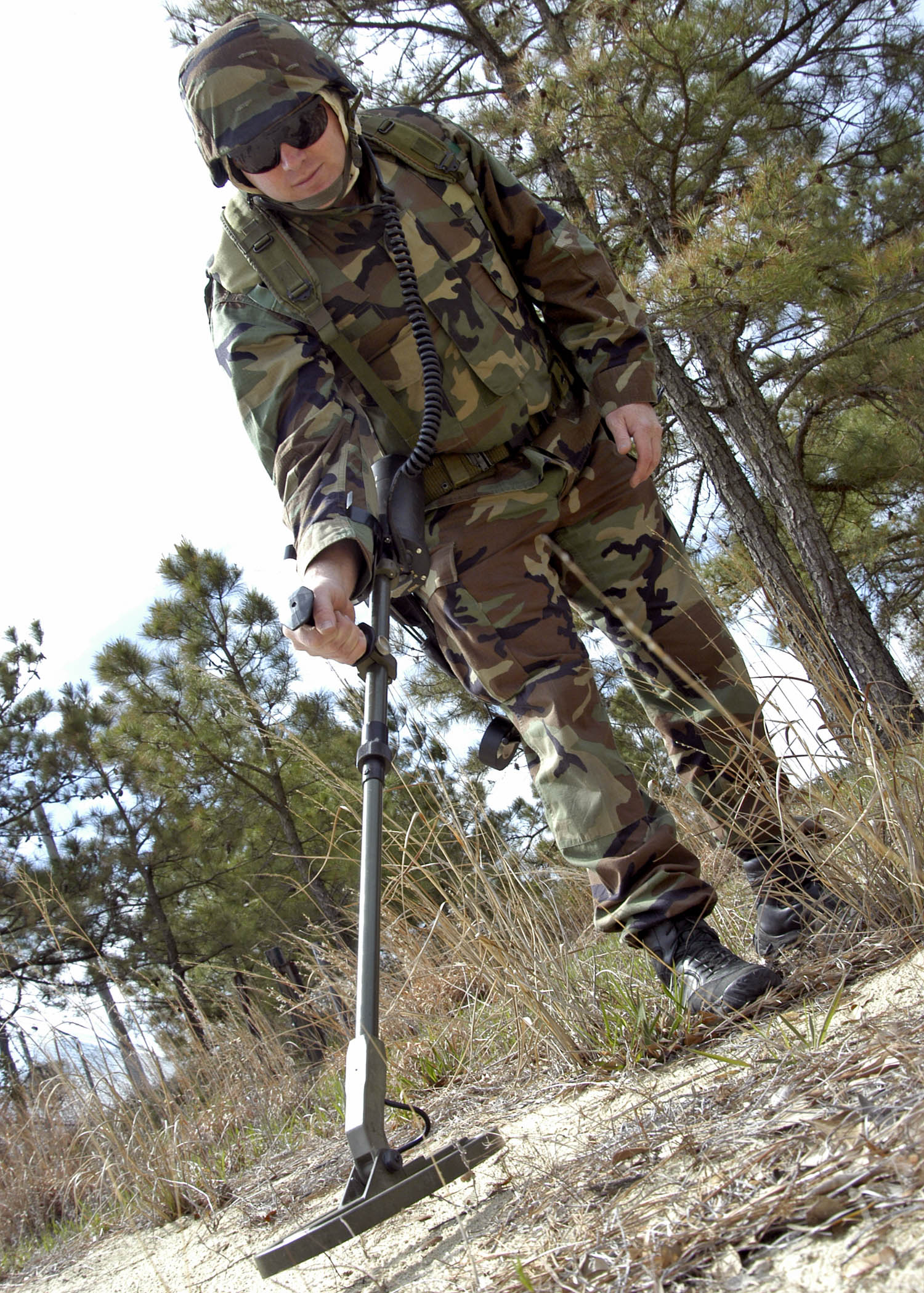 Virginia Beach, Va. (April 24, 2005) - Boatswains Mate 1st Class George Van Houten assigned to Explosive Ordnance Disposal Mobile Unit (EODMU) 10 uses a explosive ordnance locator to find land mines or other explosive devices buried in the ground during a training exercise on board Fort Story, Va. U.S. Navy photo by Photographer's Mate 3rd Class Timothy Bensken (RELEASED)